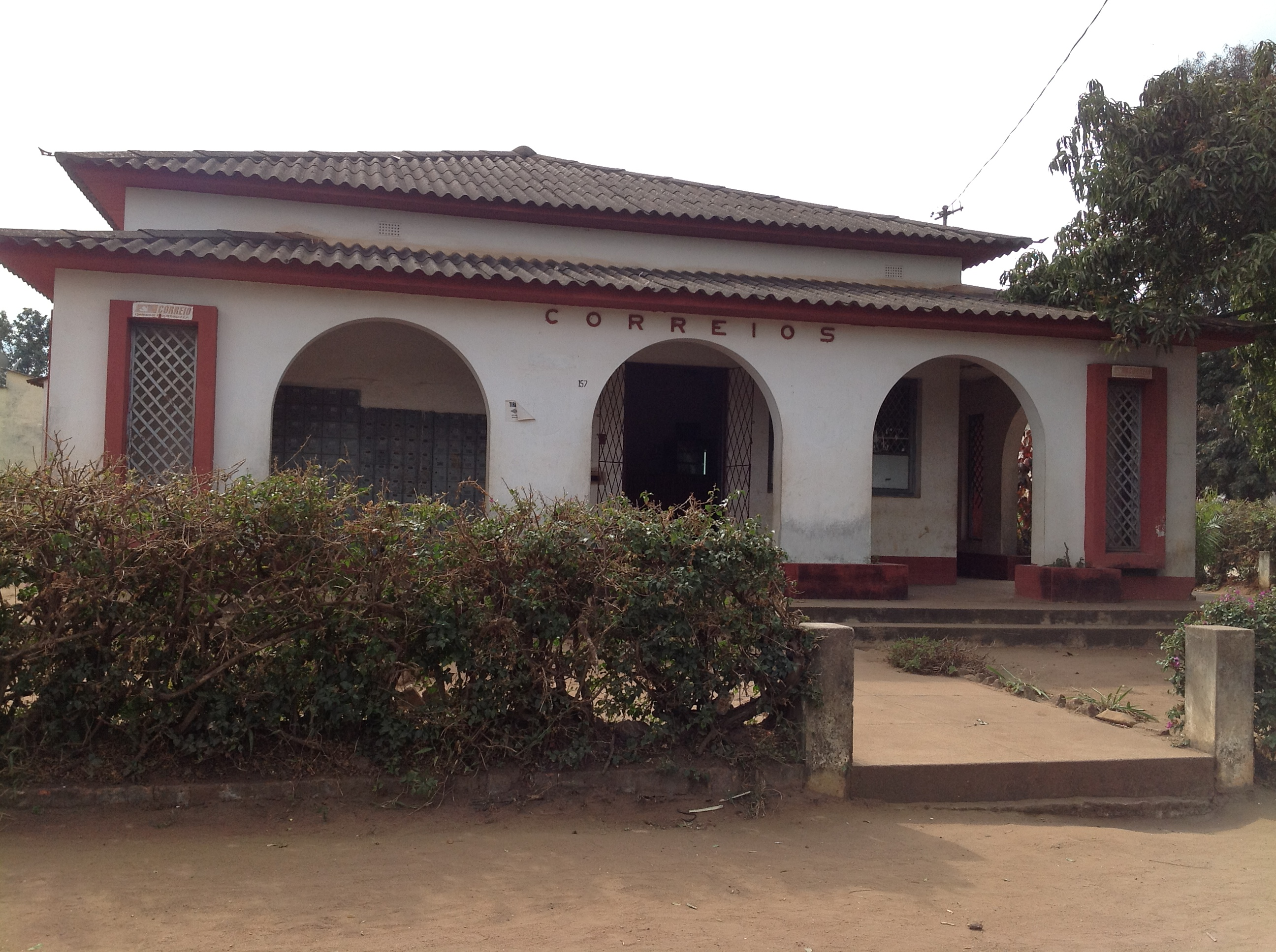 Post office in Gondola, Mozambique